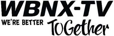 WBNX-TV 55 logo